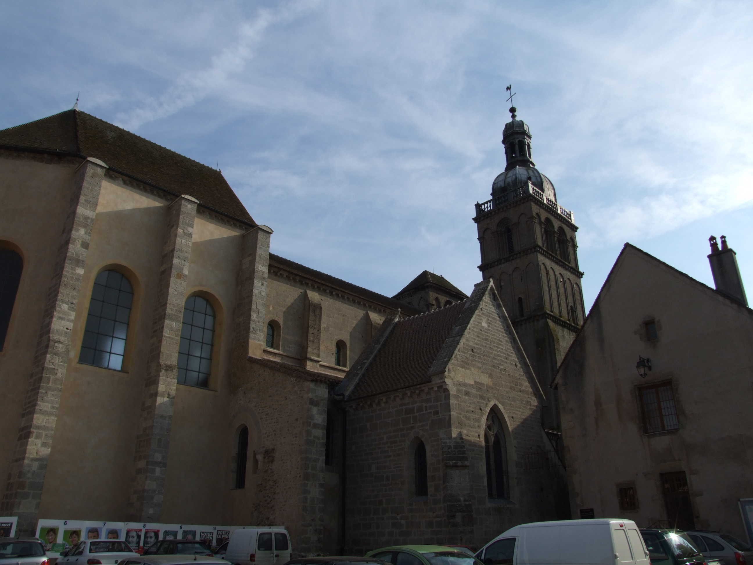 Saint-Andoche basilica, Saulieu, Burgundy, FRANCE